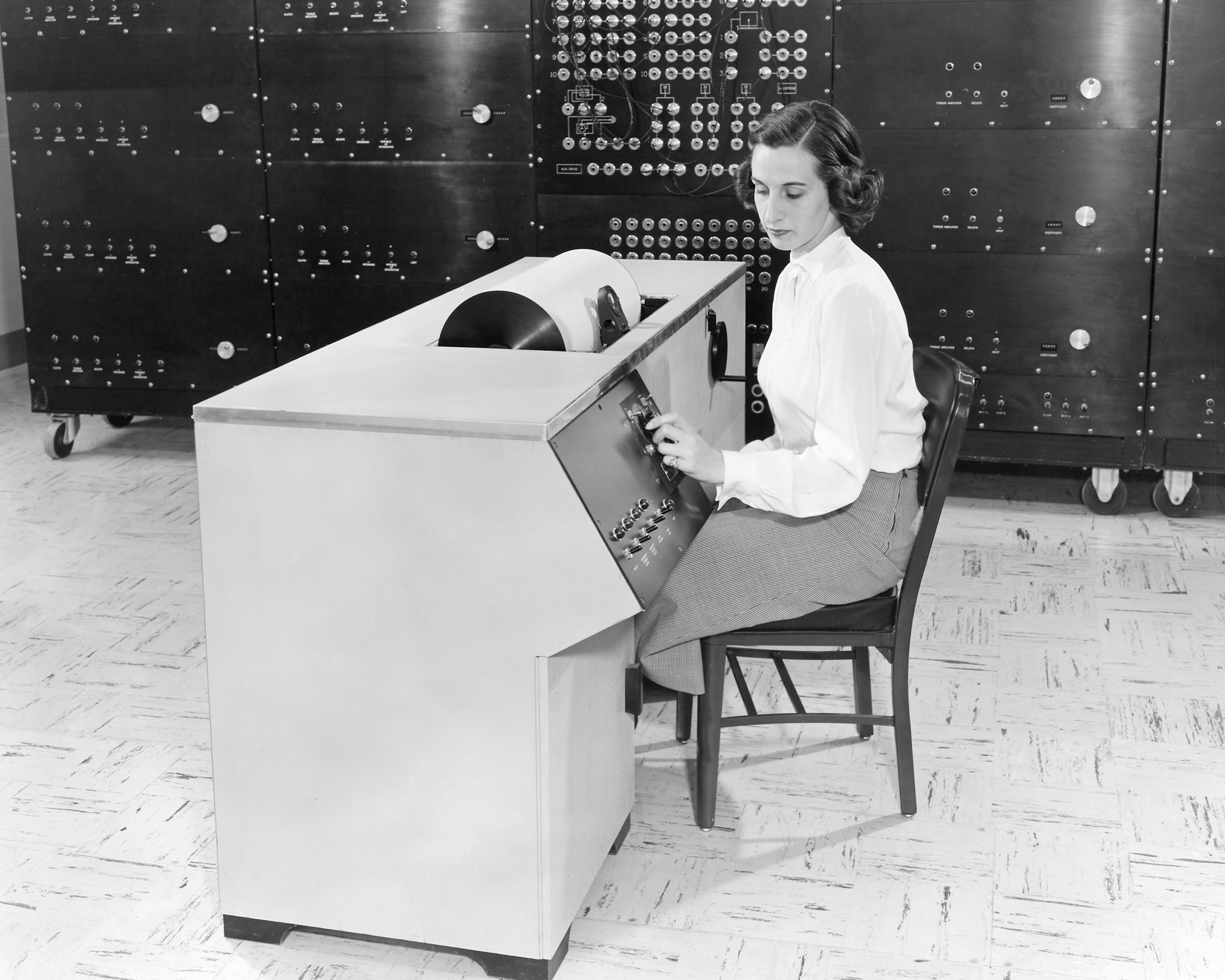 Differential Analyzer built under Mergler in Instrument Research. The technician is preparing a data report. This equipment is located at the Lewis Flight Propulsion Laboratory, LFPL, now John H. Glenn Research Center at Lewis Field, Cleveland Ohio.